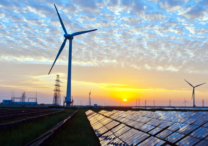 Solar cell panels in the foreground, wind turbines in the middle ground, and electricity pylons in the background; unidentified location